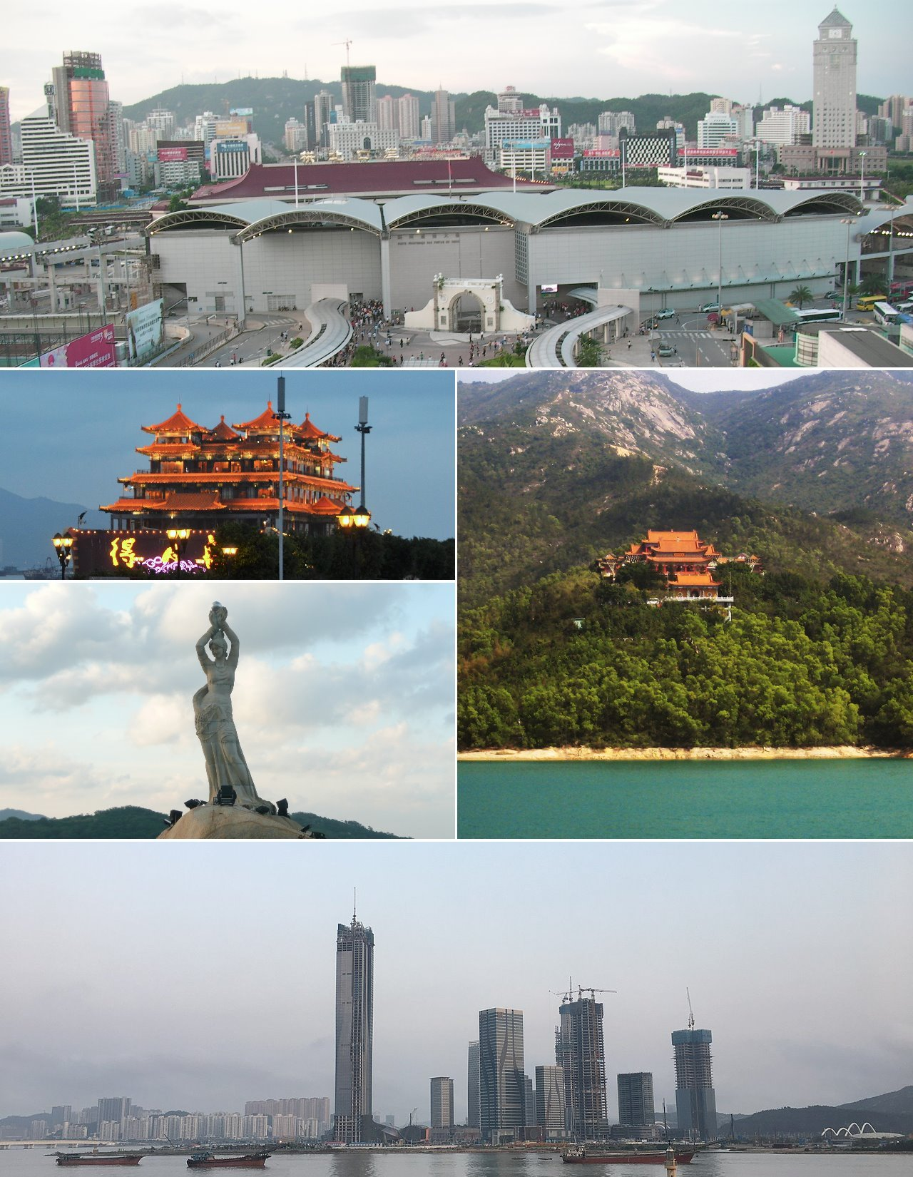 Montage of various Zhuhai images